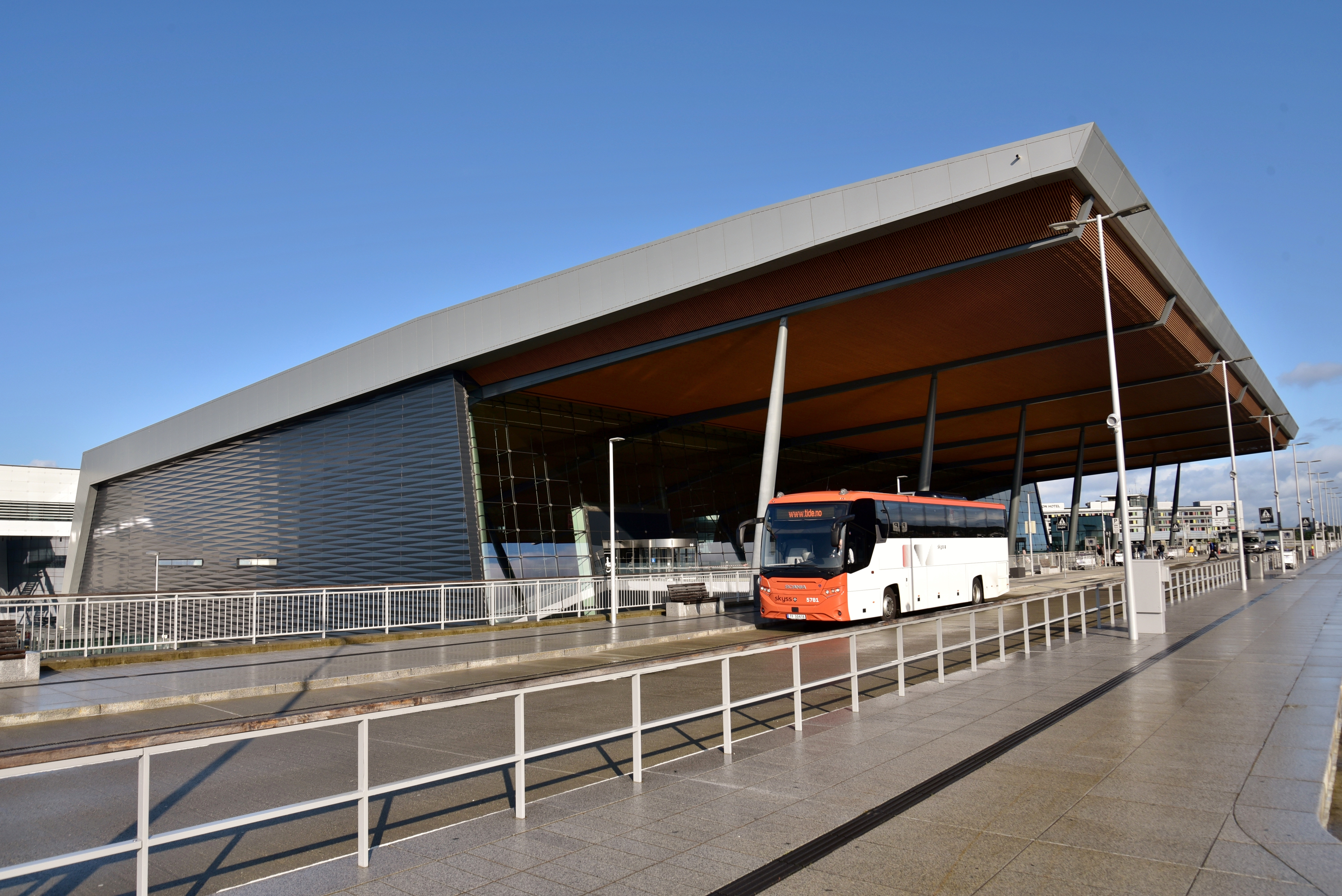 View of the terminal at Bergen Airport, Flesland, Norway